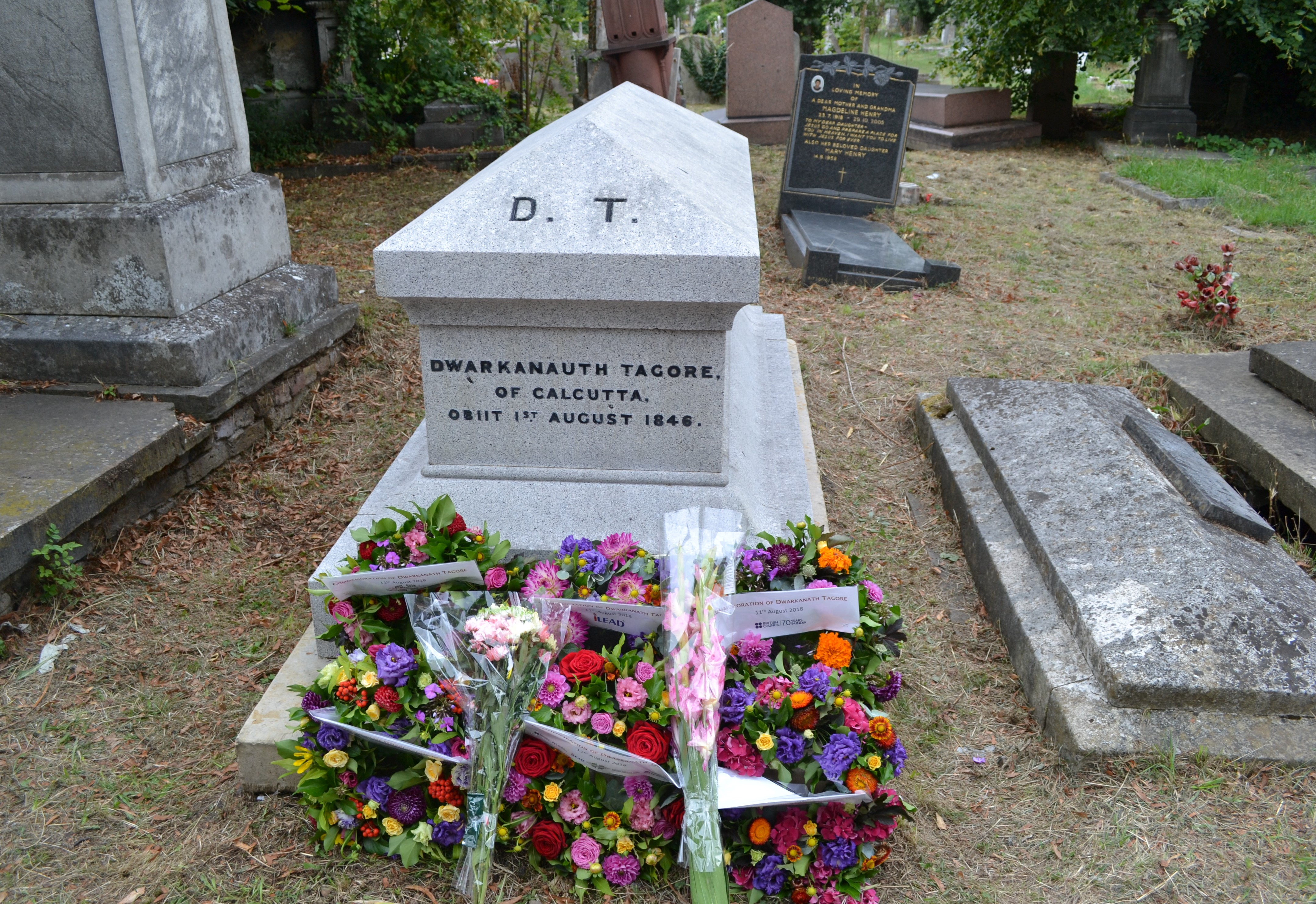 Monument of Dwarkanath Tagore at Kensal Green Cemetery London clicked on 11th August 2018.